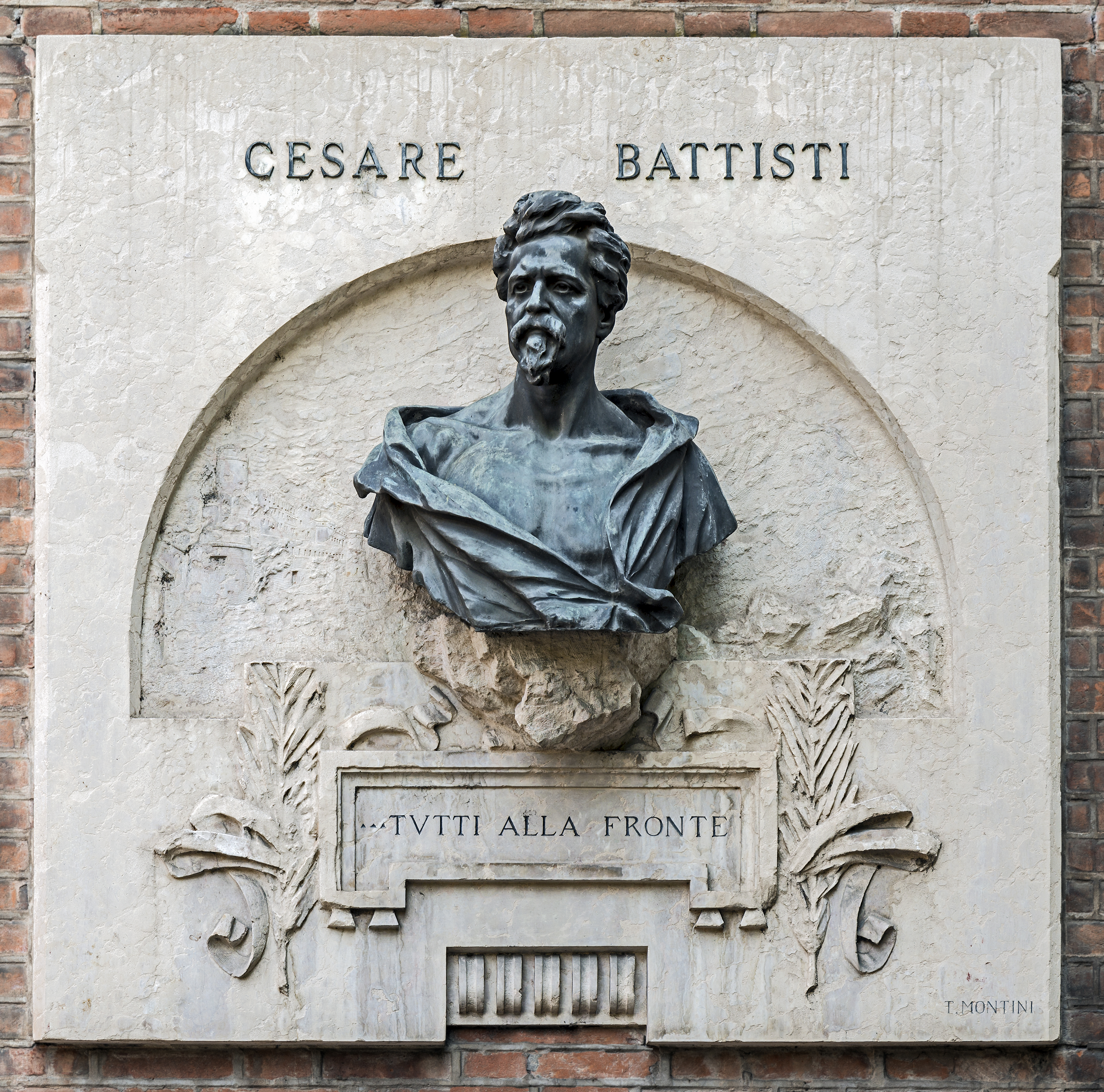 The monument to Cesare Battisti is composed of a marble slab with a shallow niche, where the bronze bust is located. Monument by the Verona sculptor Tullio Montini between 1920 and 1930.